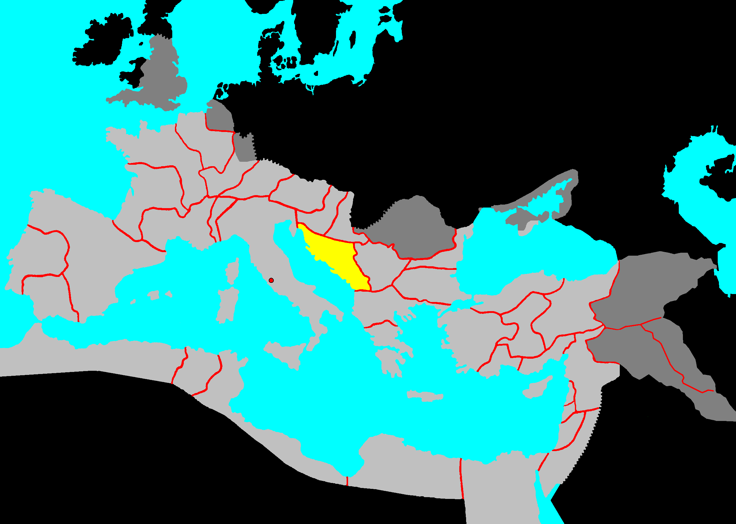 Description: provinces of the Roman Empire (Imperium Romanum) Source: own work Date: December 2005 Author: --Immanuel Giel 12:51, 13 December 2005 (UTC) Other versions: none